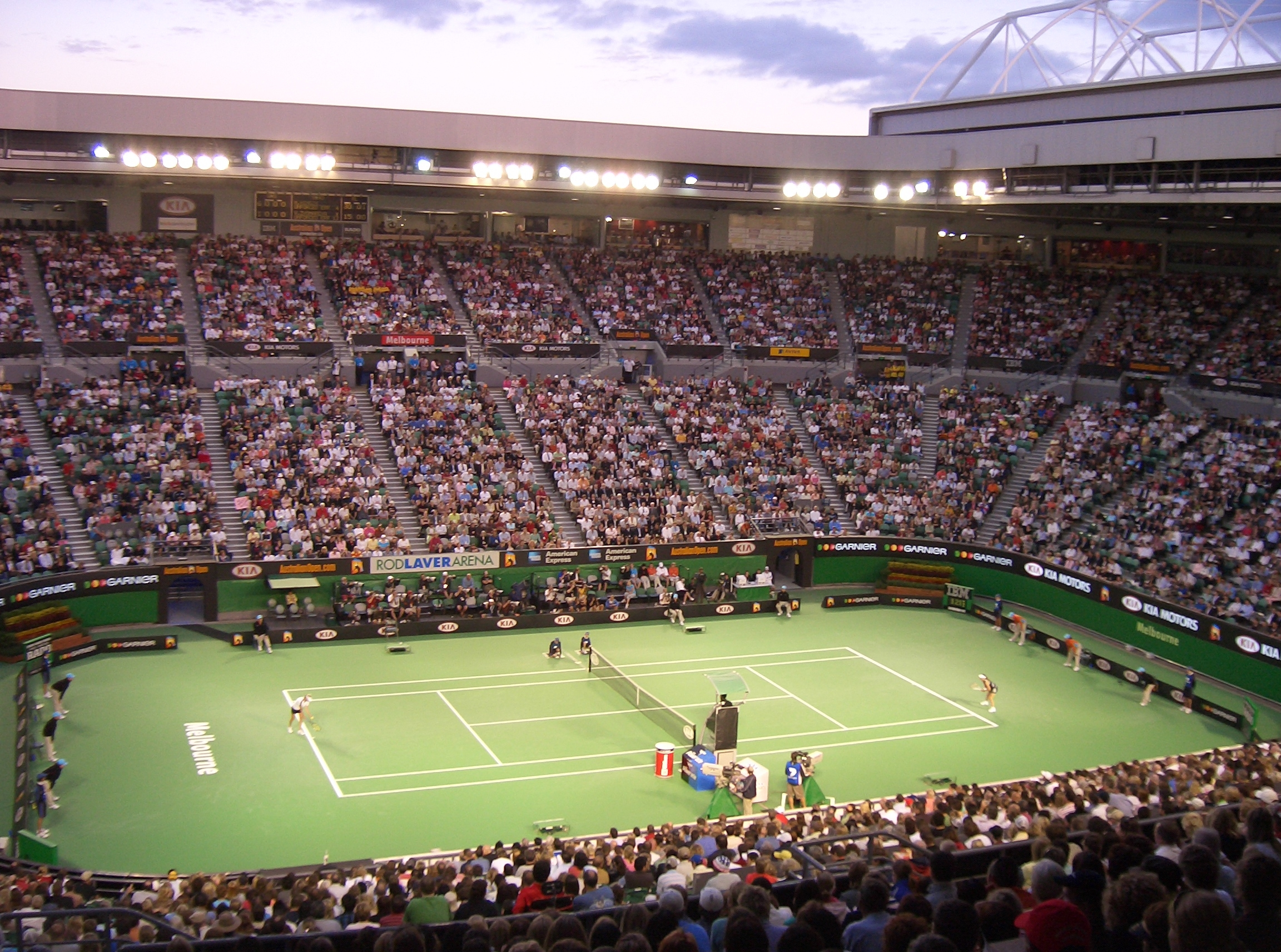 Inside the Rod Laver Arena during an evening match of the 2006 Australian Open. I have a feeling it's Martina Hingis' first-round match.